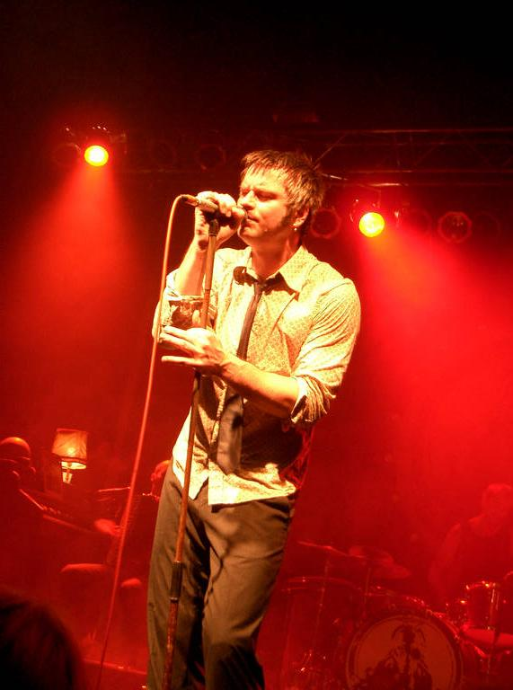 Janove Ottesen, aka Janove "The Jackal" Kaizer.